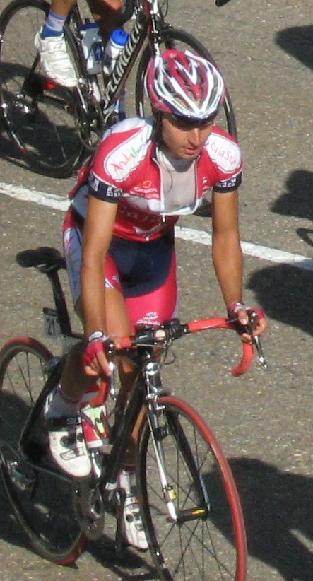 José Antonio Carrasco, 2008 Vuelta a España, 8th stage, Port de la Bonaigua, Spain.